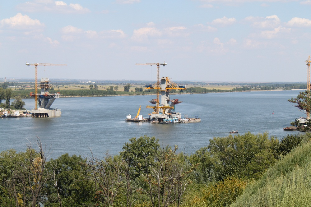 Construction of the Vidin - Calafat bridge as seen in August 2011. View from the Romanian river bank, which lies significantly higher above the Danube river compared to the Bulgarian river bank, which has to be protected from floods by dikes.